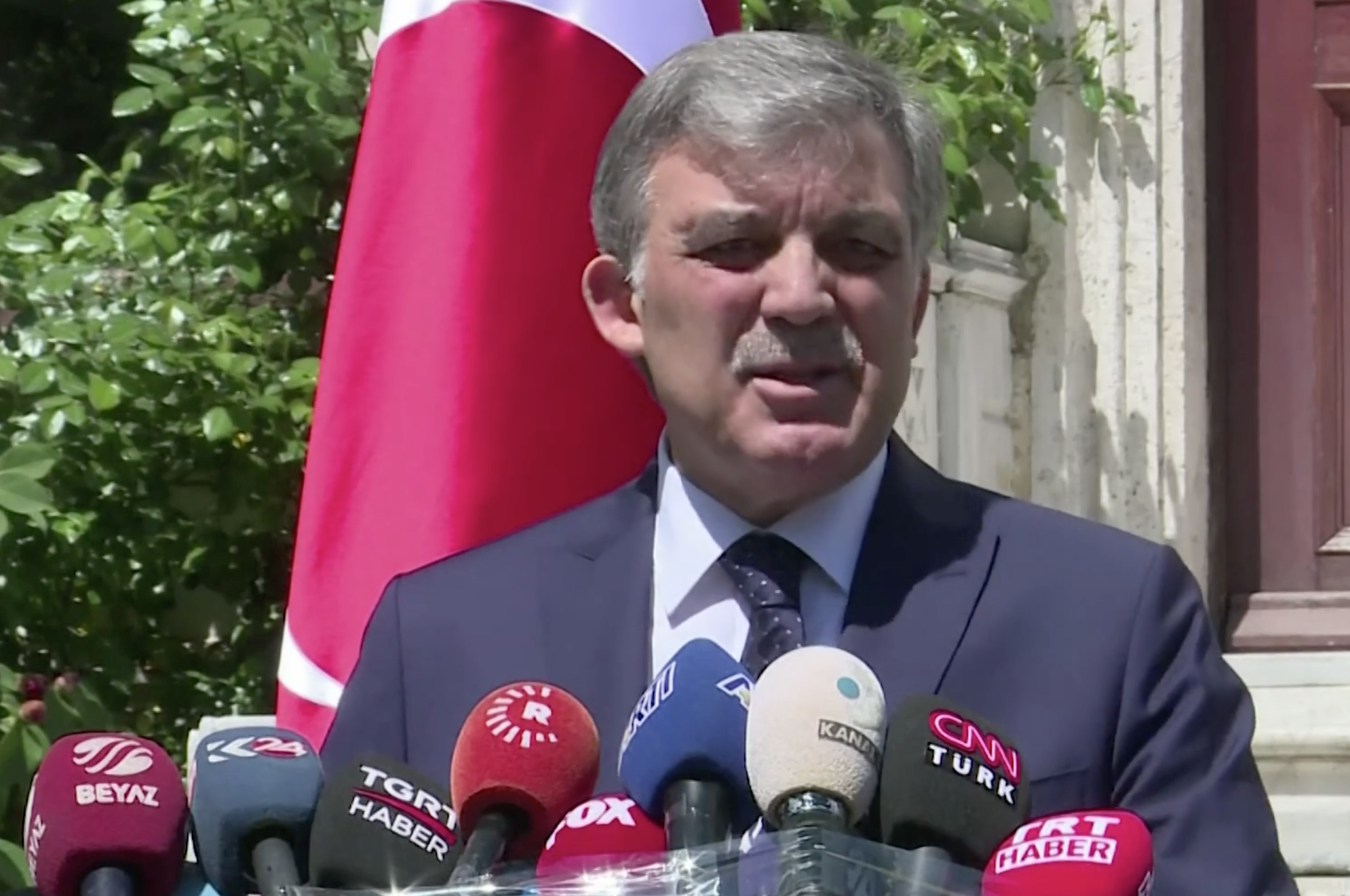 Abdullah Gül announcing that he will not stand in the 2018 Turkish presidential election